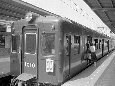 Hankyu 1010 series EMU set 1010 at Ishibashi Station